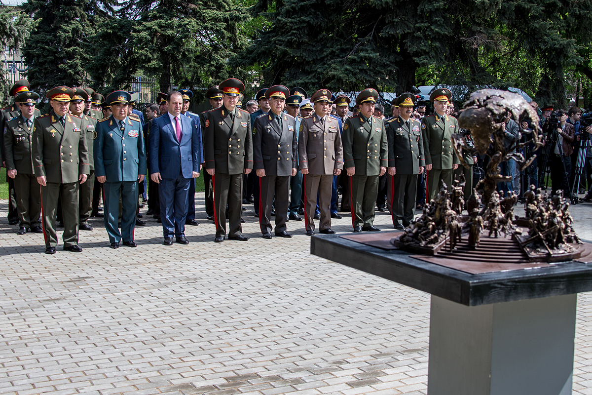 The ceremony of the anniversary session of the Council of the CIS Defence Ministers in May 2017.